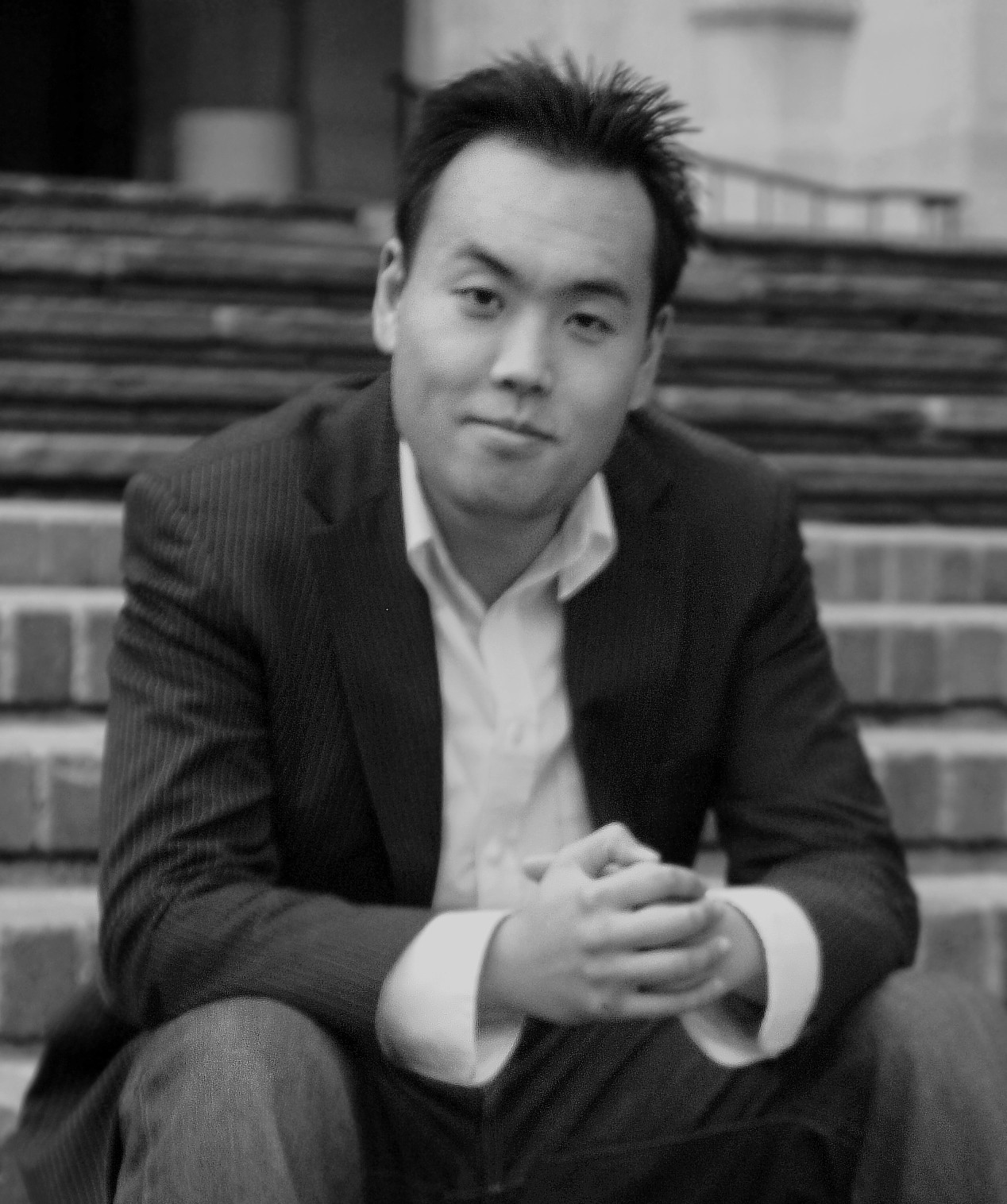 Timothy Tau